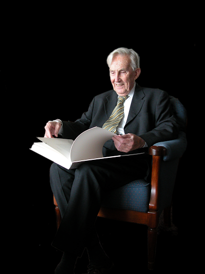 Dutch carcinologist L.B. Holthuis (Lipke Bijdeley Holthuis)